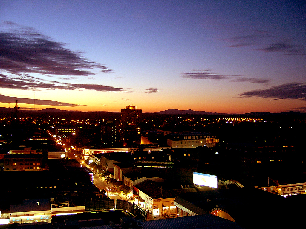 Chillán city, Chile.